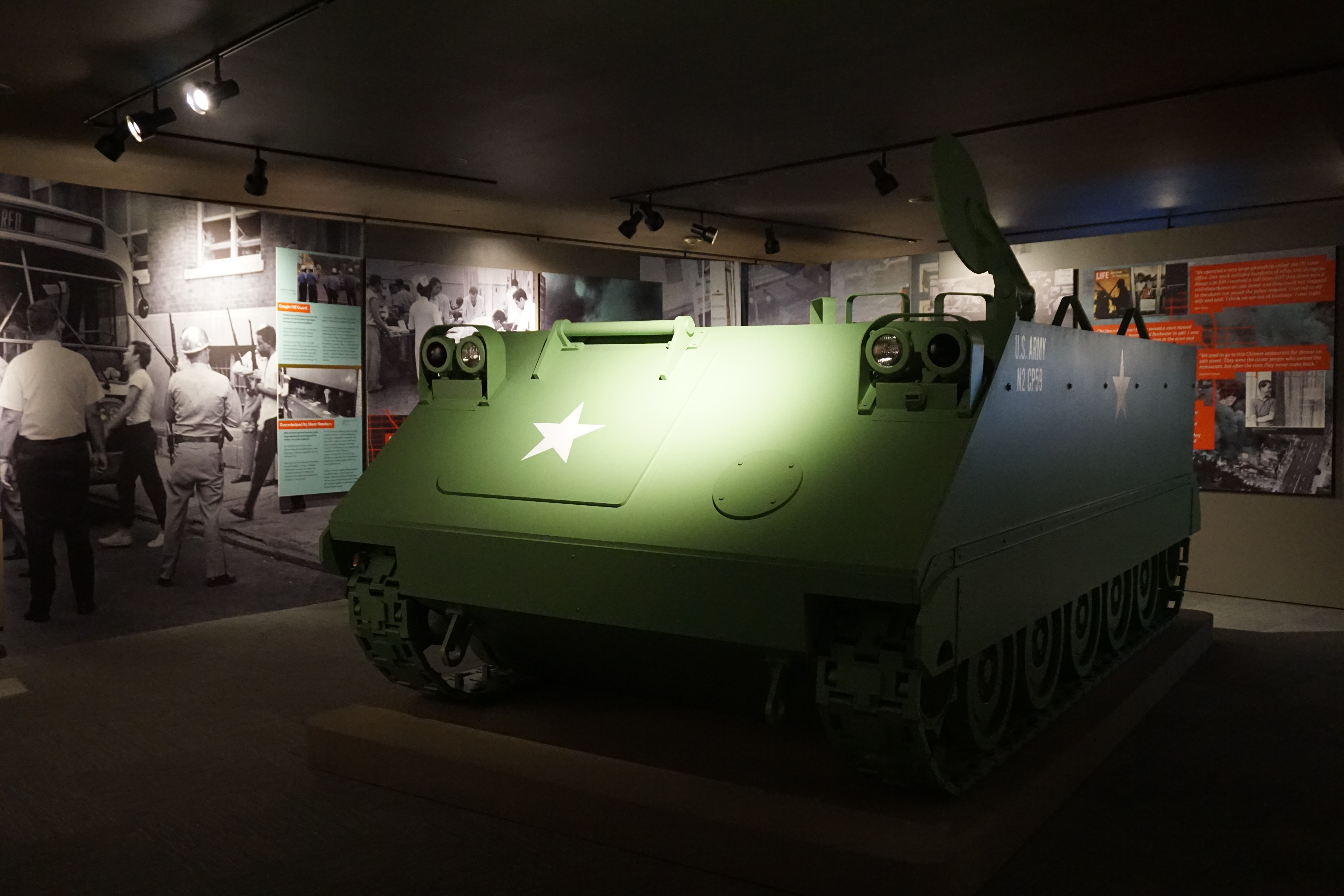 The Detroit '67: Perspectives exhibit at the Detroit Historical Museum in Detroit, Michigan (United States).